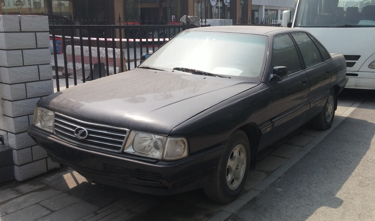 Hongqi CA7180A2E photographed in Wuhan, Hubei province, China.